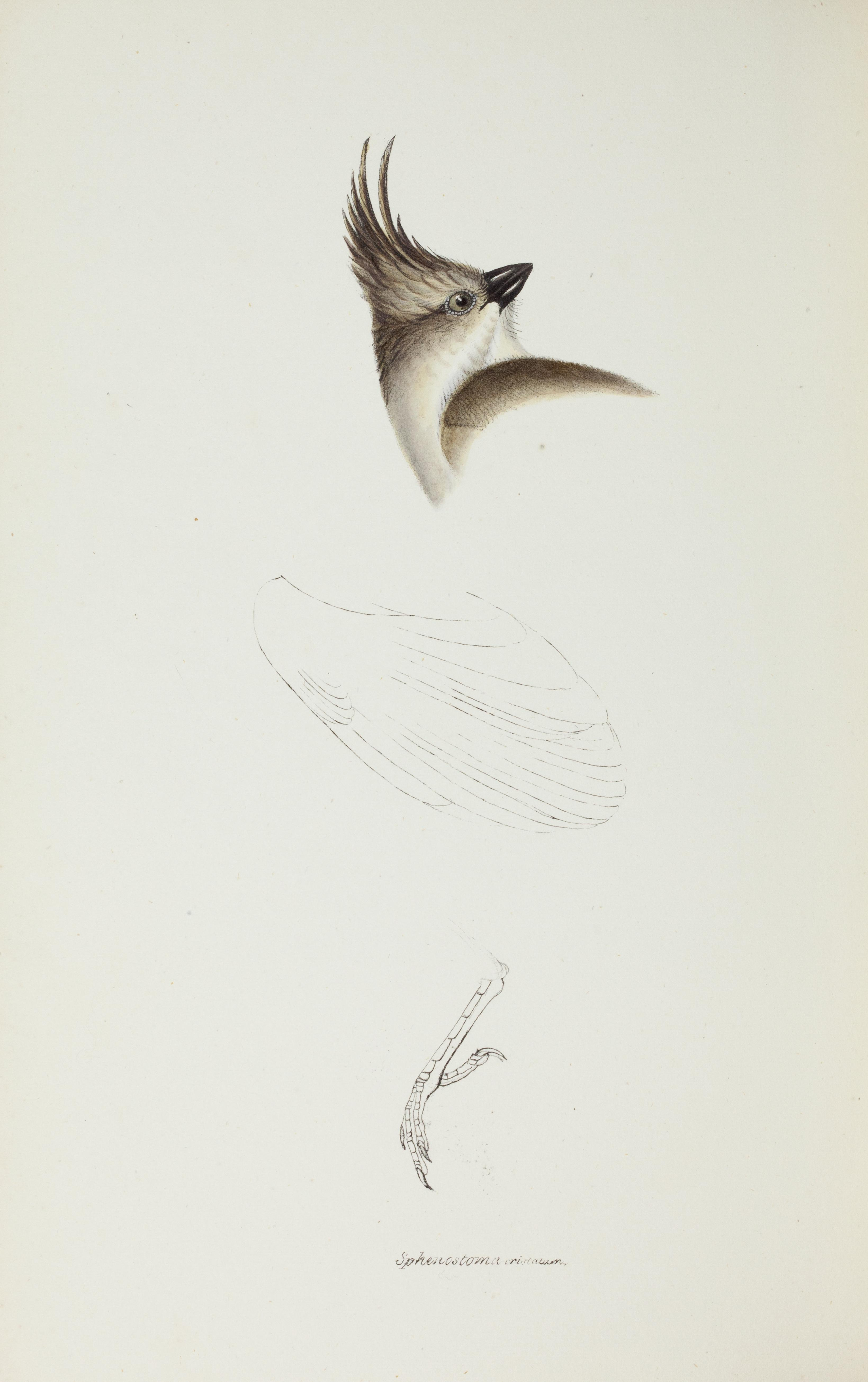 A synopsis of the birds of Australia, and the adjacent Islands /